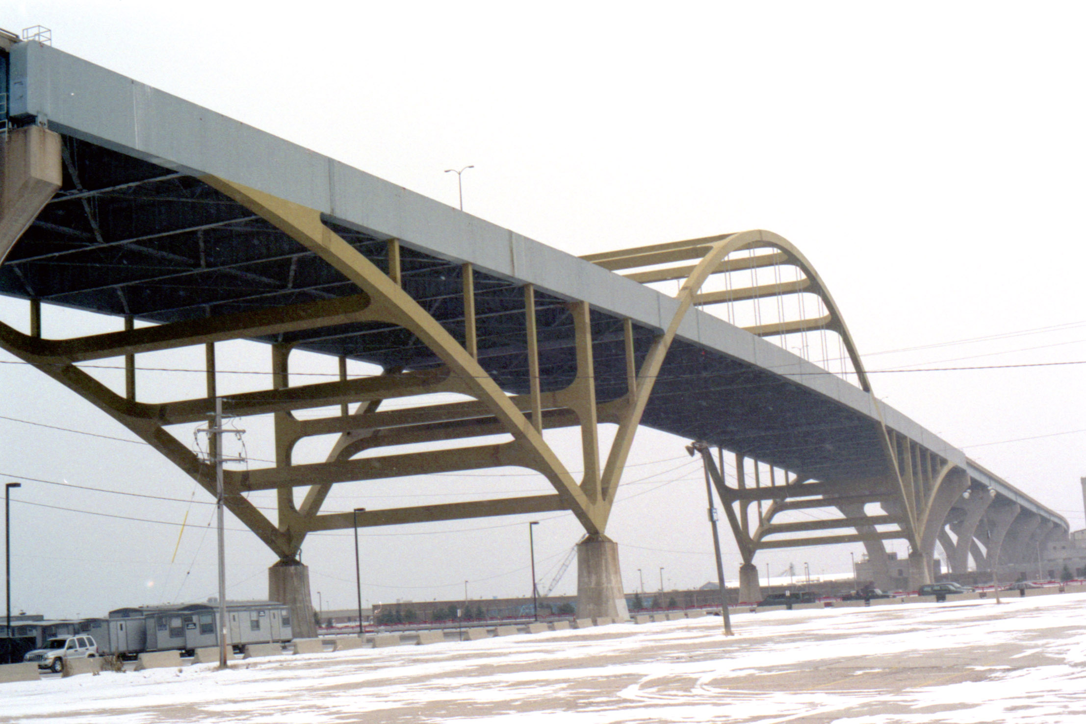 The Hoan Bridge in Milwaukee, Wisconsin, USA.